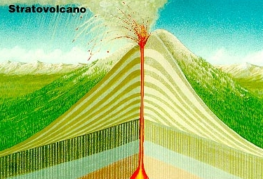 Structure of a stratovolcano.